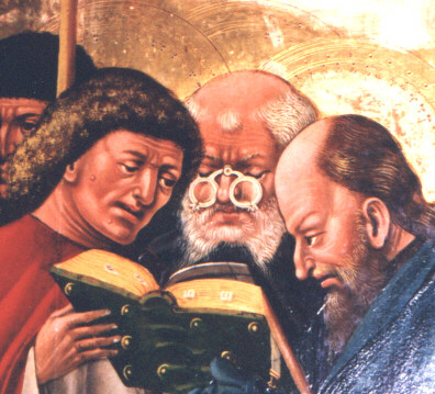 Detail of the altarpiece (Polyptych)